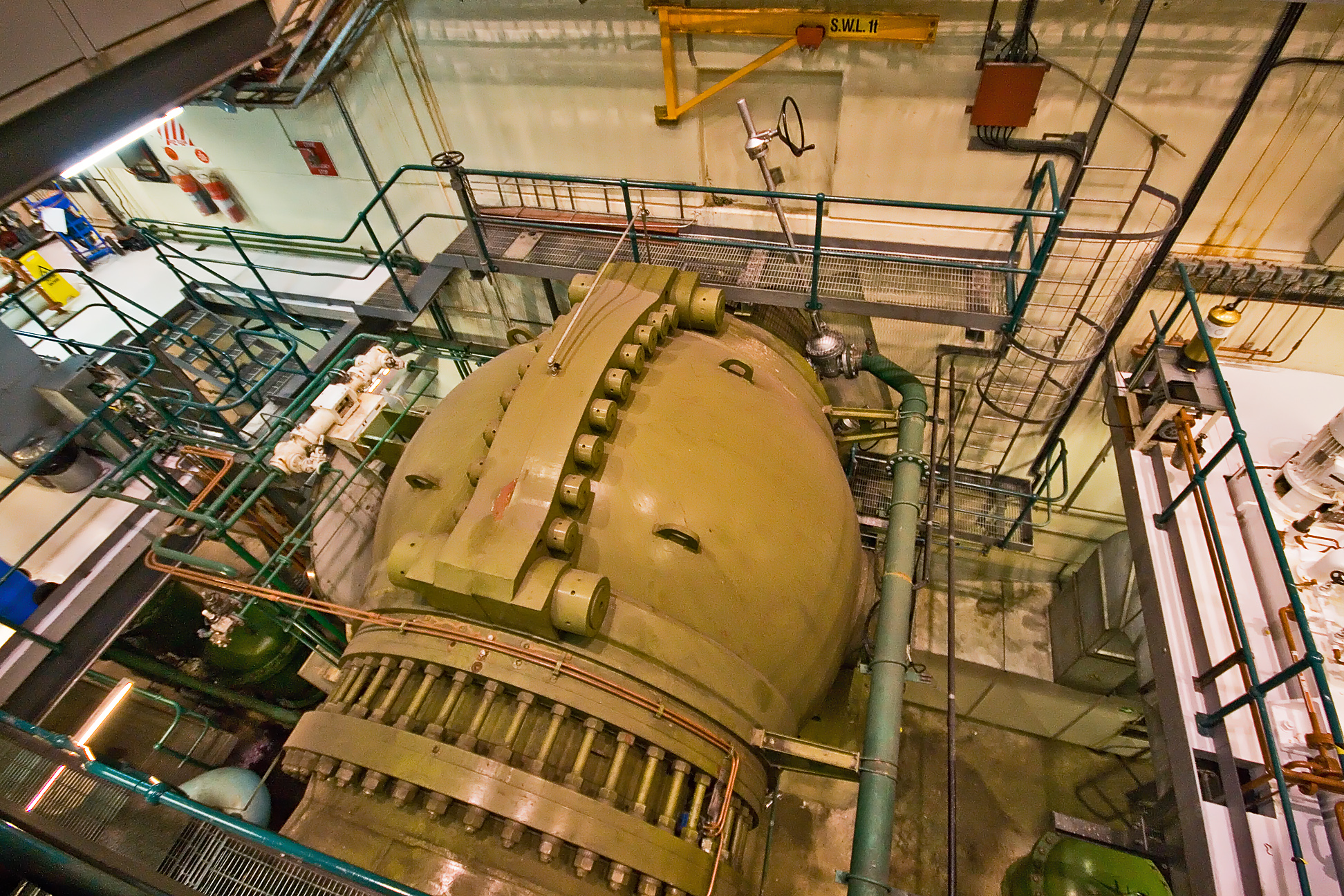 Shut off spherical control valve for the second Francis turbine at the Gordon Power Station, Southwest National Park, Tasmania, Australia.